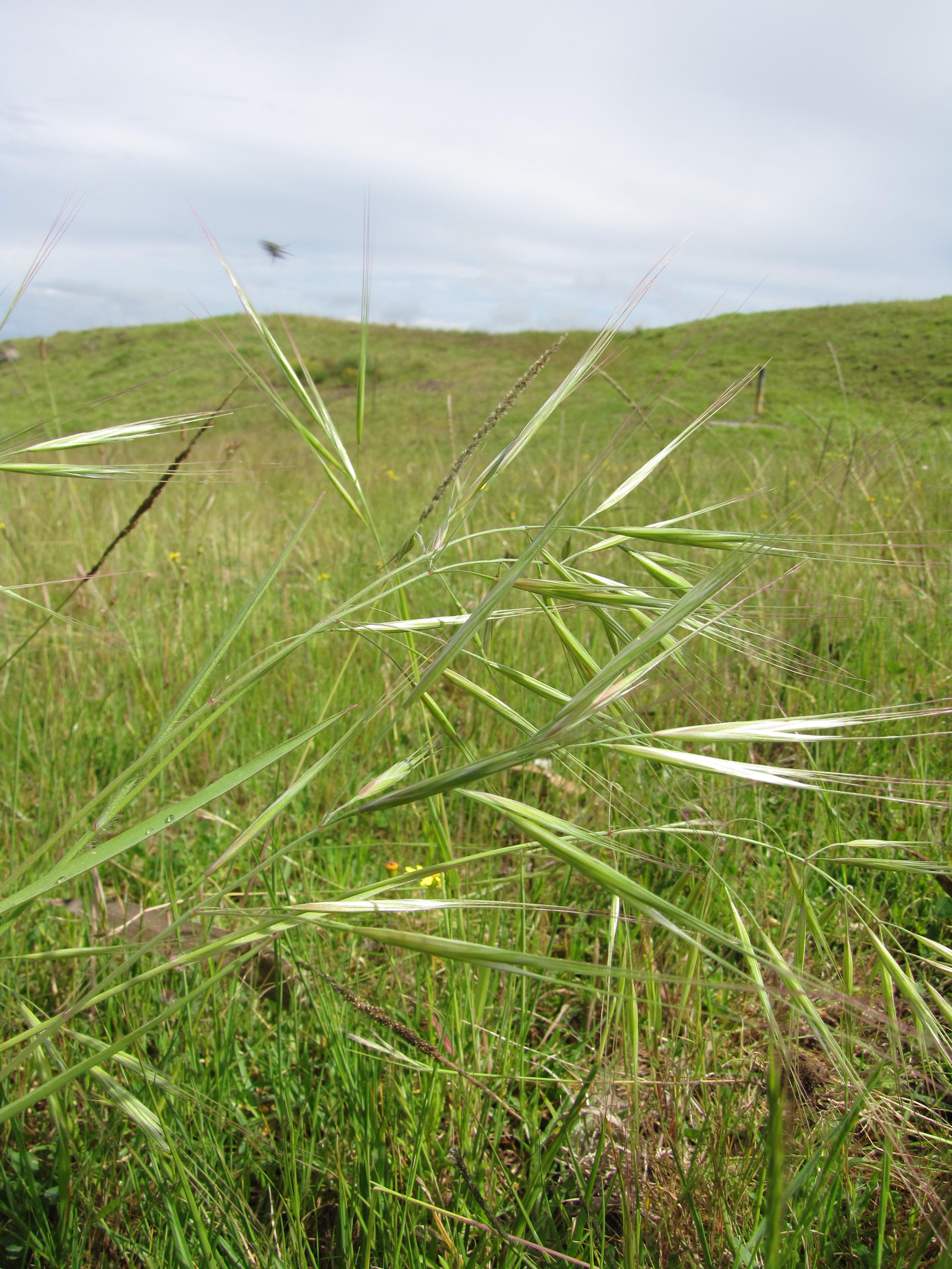 Bromus diandrus (Ripgut grass) Seedheads at Kula, Maui, Hawaii. May 02, 2011 #110502-5296 Image Use Policy Also known as Bromus rigidus.